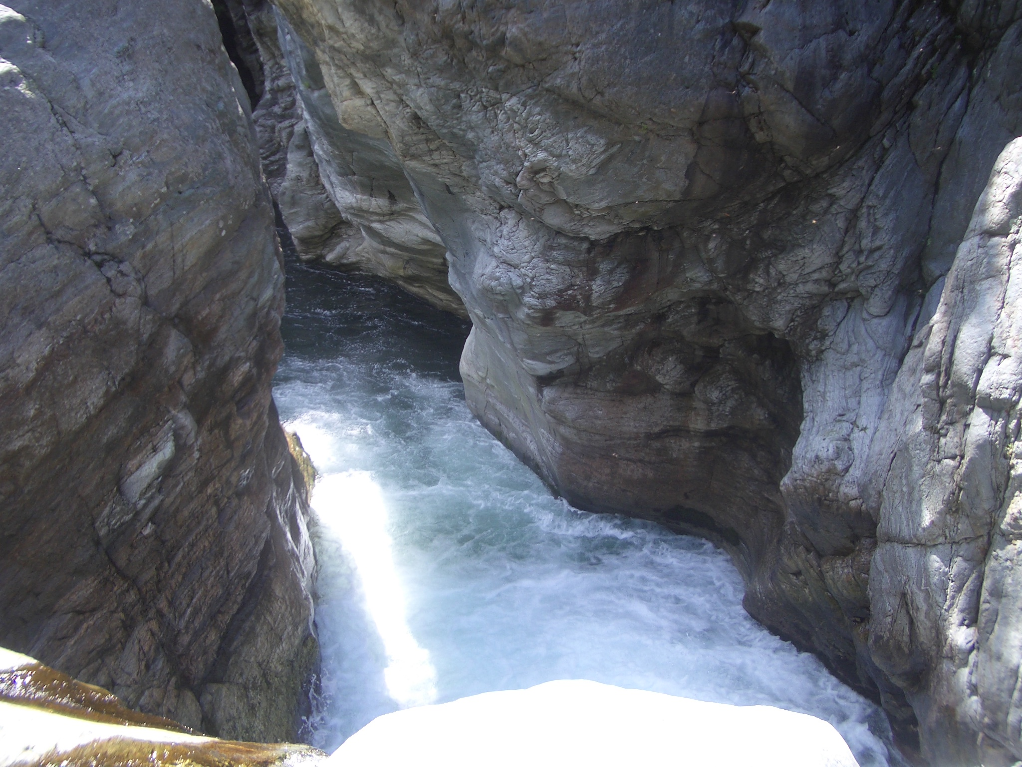 Chiusella river; Garavot's gorge (Province of Turin)